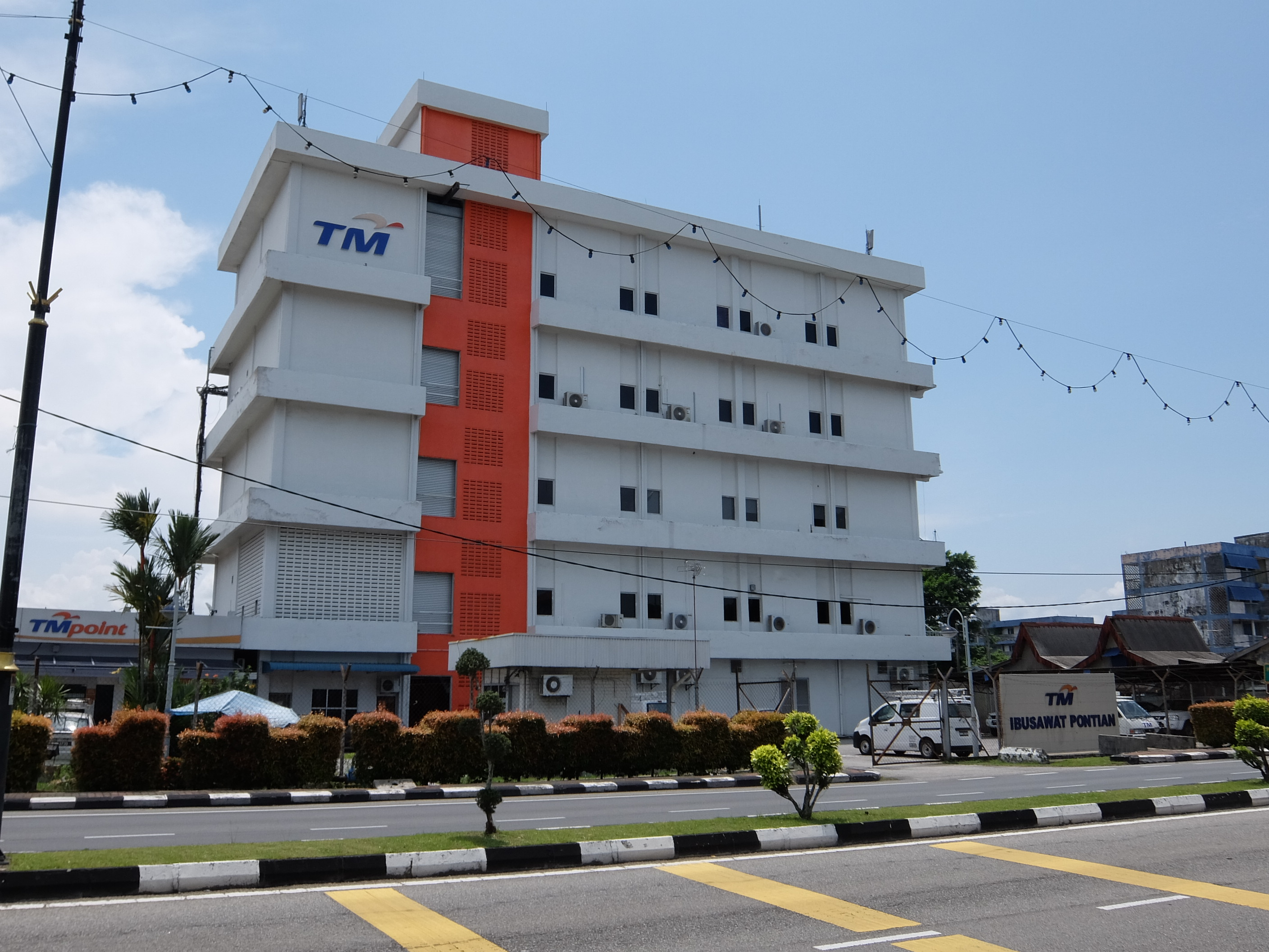 TM Pontian, Pontian Kechil, Pontian, Johor, Malaysia